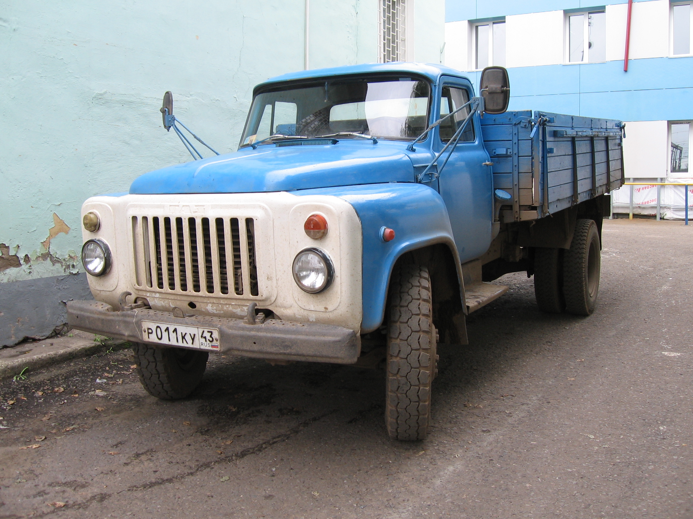 GAZ-53-12